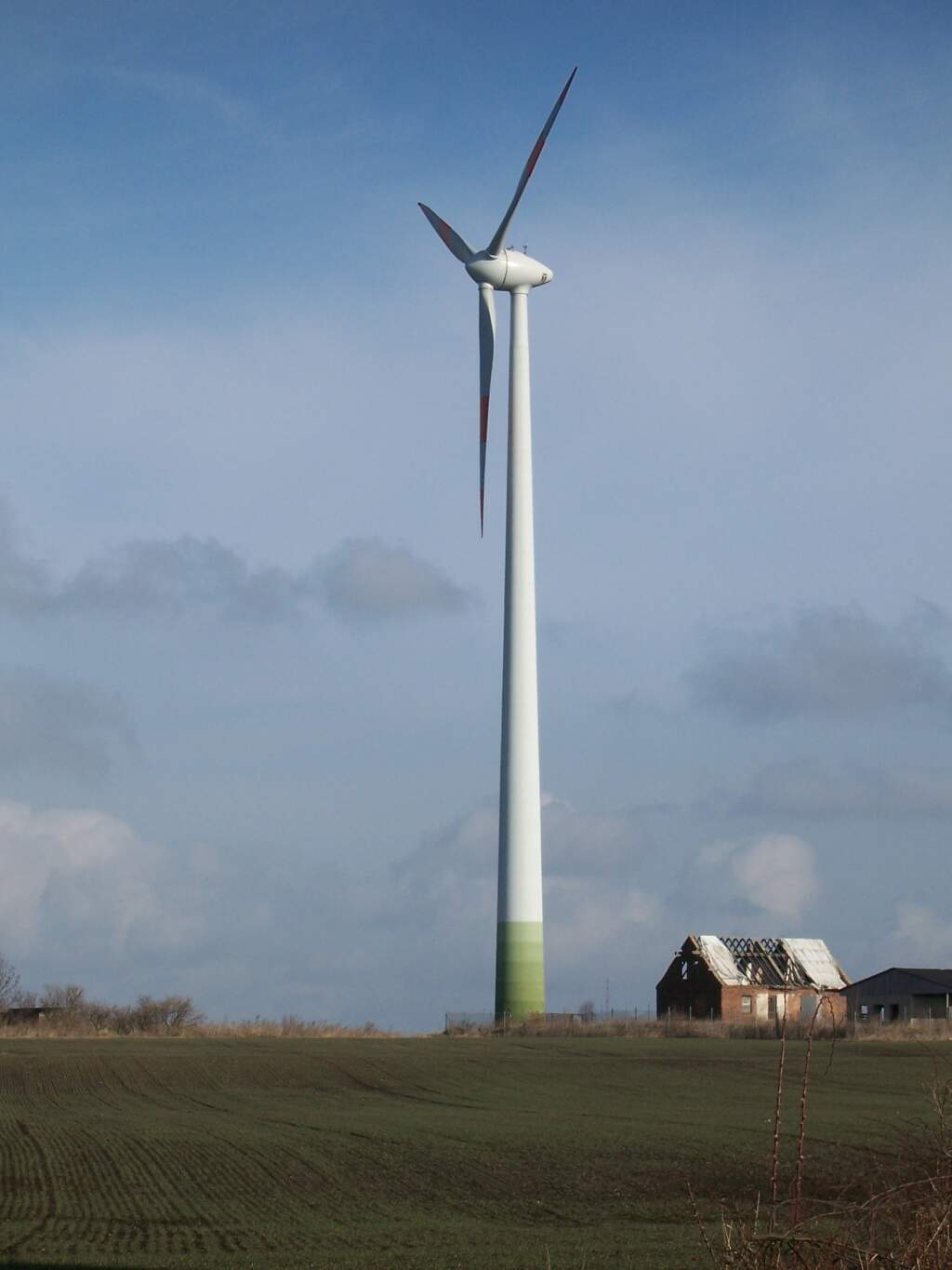 Enercon E-66 wind energy converter in Egeln/Germany. The tower is 98m high and the rotor diameter is 70m.